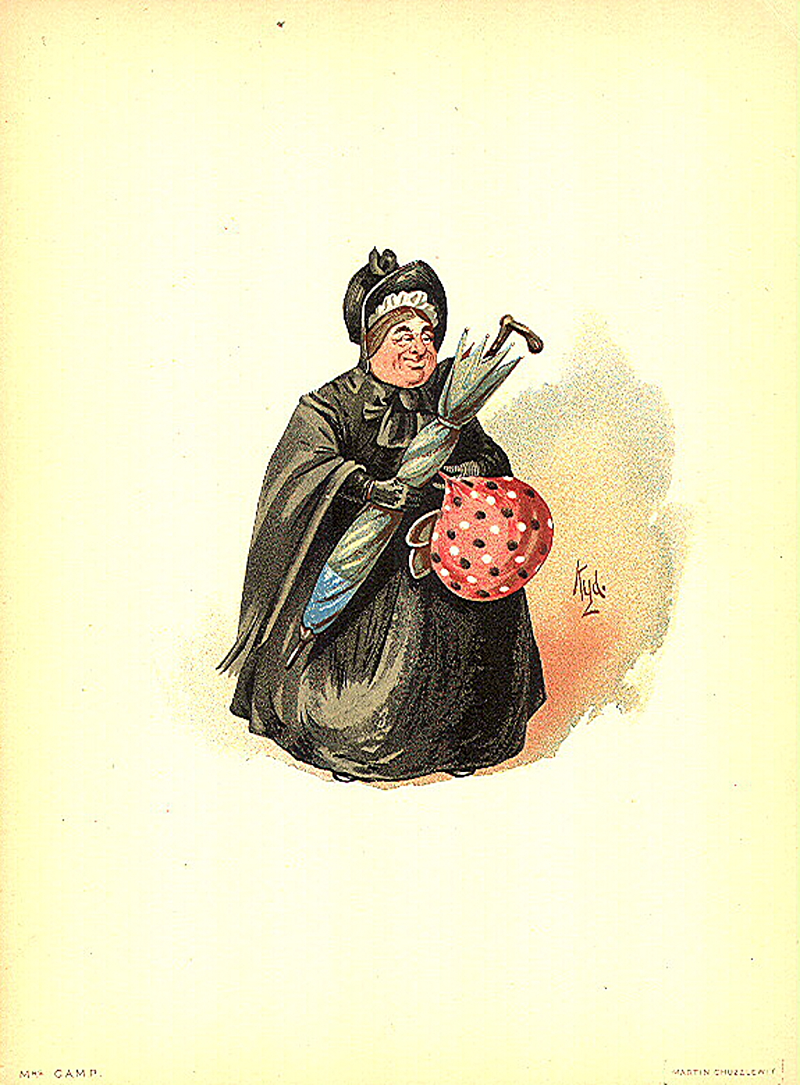 From "Character Sketches from Charles Dickens, Pourtrayed by Kyd", or "The Characters of Charles Dickens Pourtrayed in a Series of Original Water Colour Sketches by Kyd." Scanned and archived at where it was marked as Public Domain.